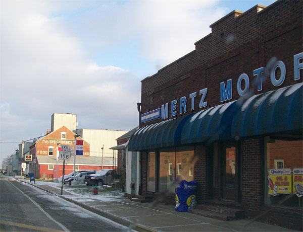 Downtown Millstadt. (Mertz Motors and Ott's Tavern pictured.)